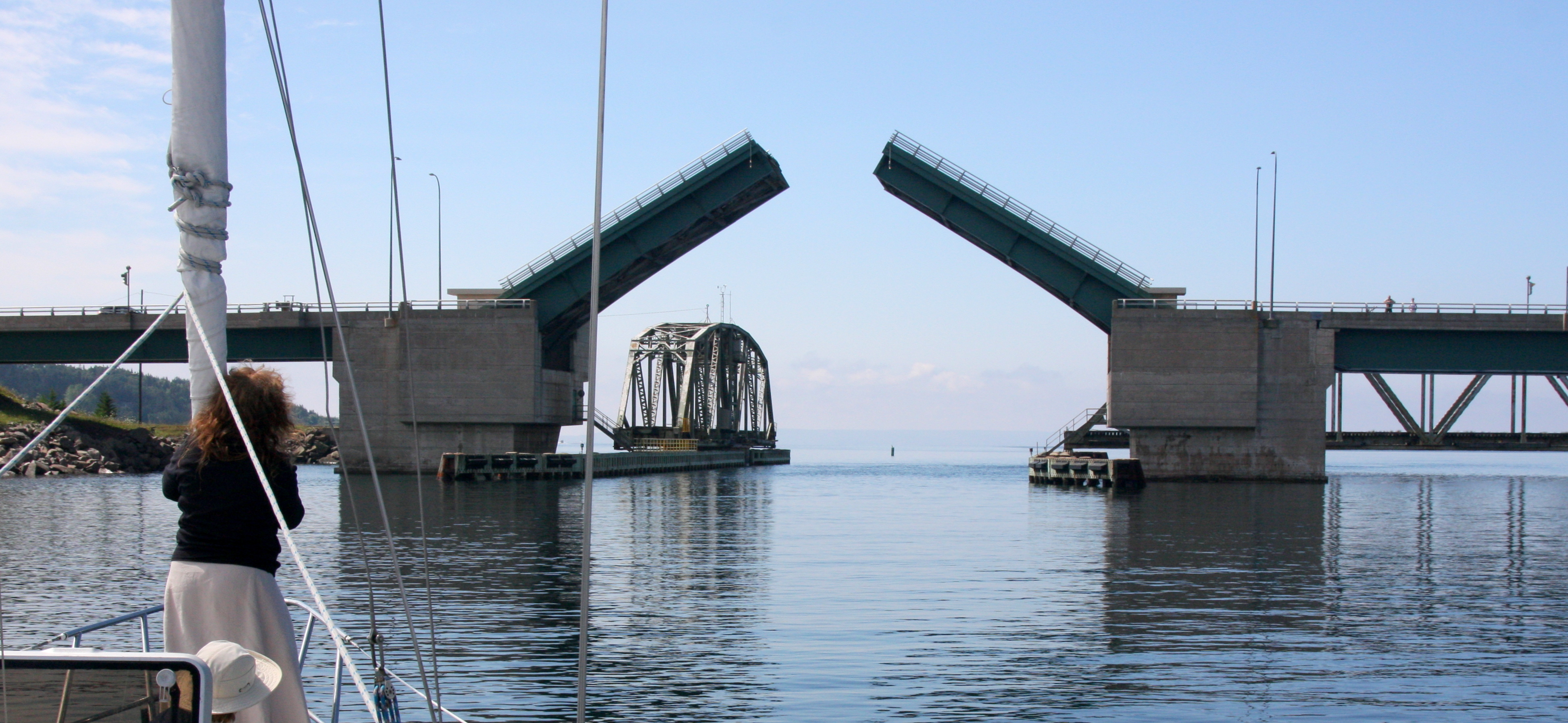 The Barra Strait Bridge is a Canadian road bridge crossing between Victoria County, Nova Scotia, and Cape Breton County. The Barra Strait Bridge crosses the Barra Strait of Bras d'Or Lake, carrying Nova Scotia Route 223 between Iona, Victoria County, on the West side, and Grand Narrows, Cape Breton County (Cape Breton Regional Municipality) on the east side. Behind it in the photograph (with the arched spans) is the Grand Narrows Bridge.